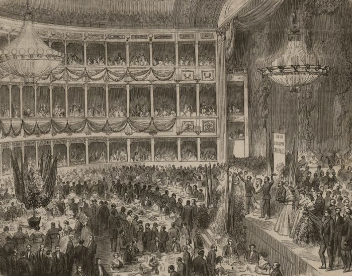 A reception held at the theatre in honour of Giuseppe Garibaldi, a city he lived in for 3 years, at the Naum theatre in Pera. Built in 1848 on the site of an earlier wooden theatre that was destroyed in fire, this building served as the chief opera house of Constantinople, until it too was destroyed by a fire in 1870.